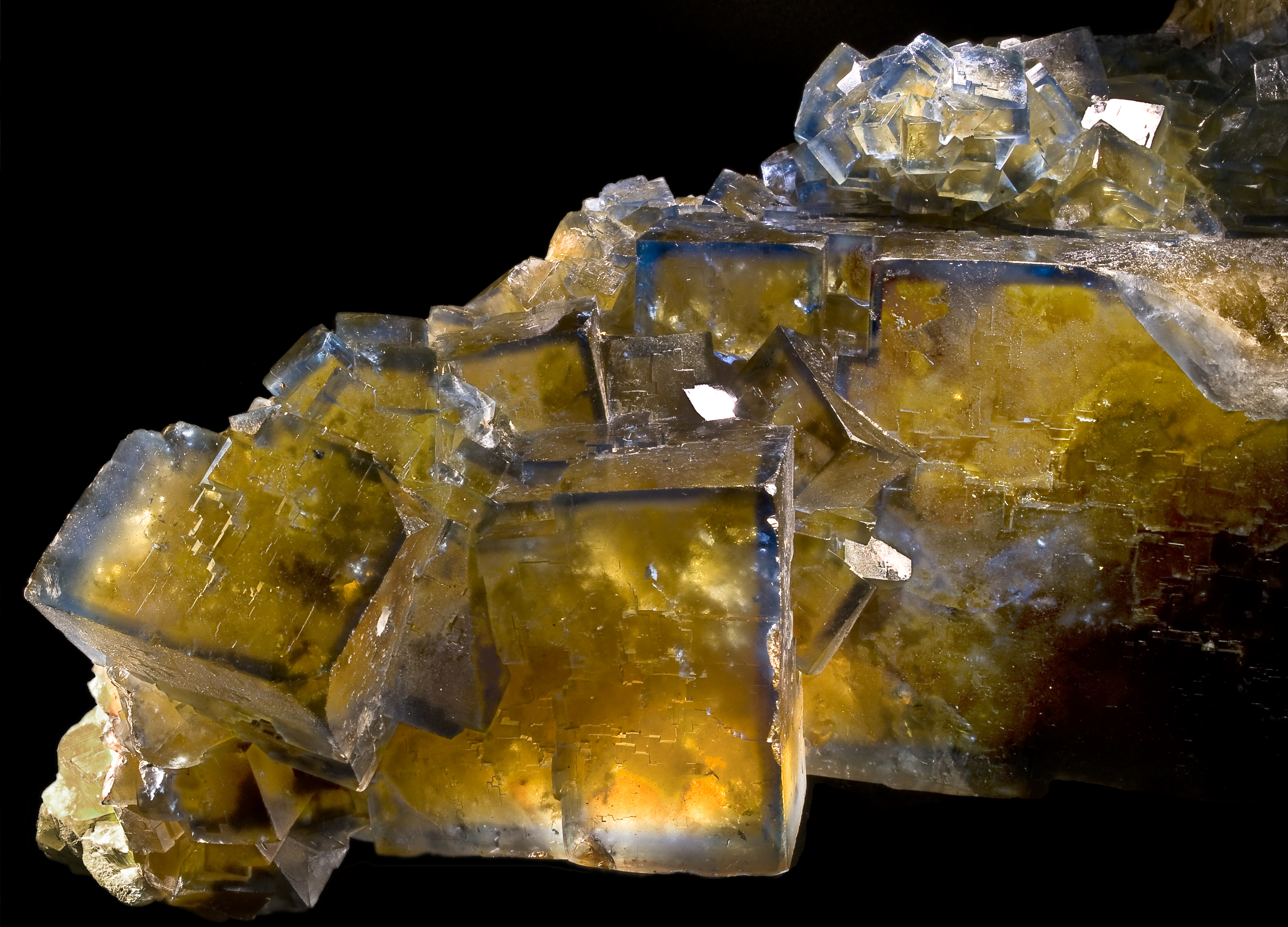 Fluorite - Valzergues Mine, Aveyron, Midi-Pyrénées France - (39x20cm)